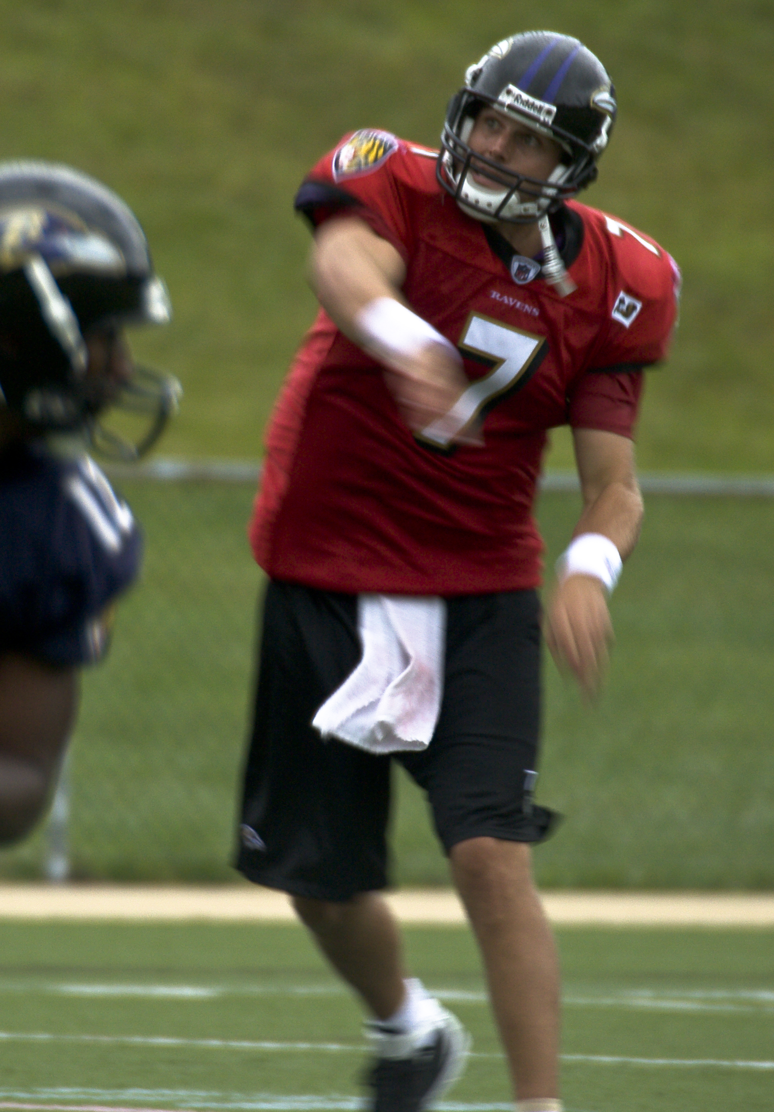 Ravens Training Camp July 23rd